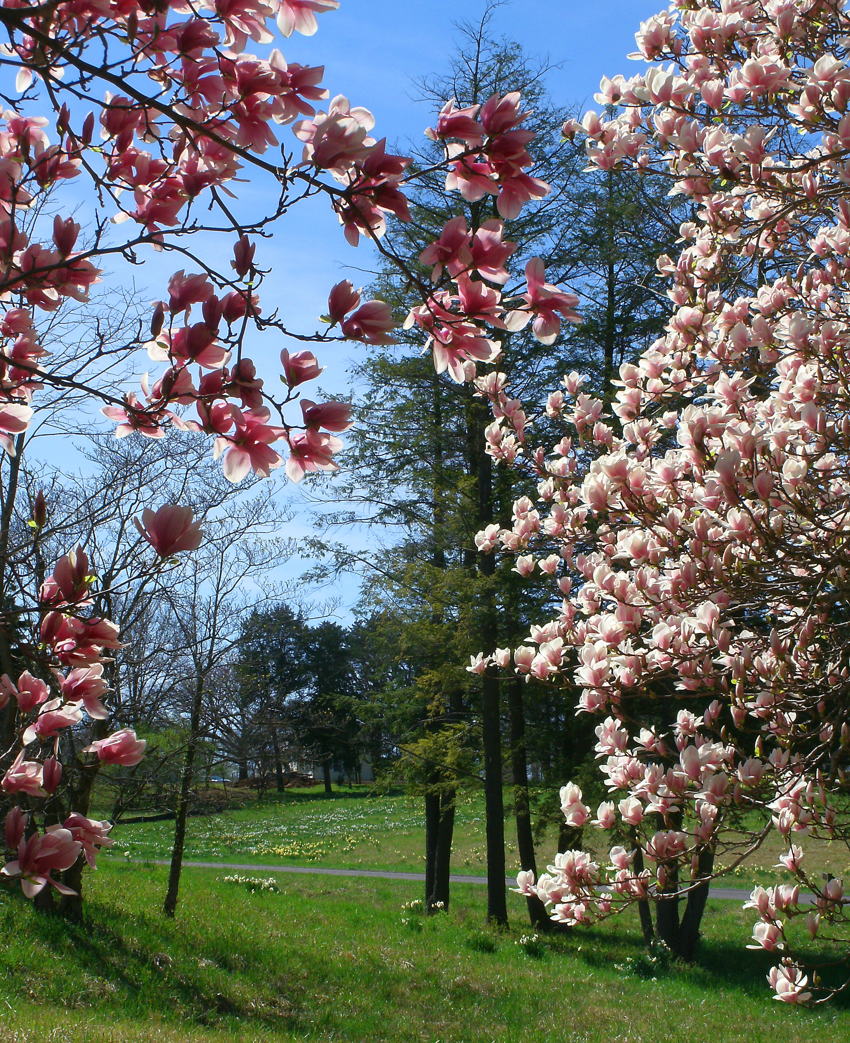 Groves of blooming magnolias and fields of daffodils grace the springtime grounds of the Shaw Nature Reserve in Gray Summit, Missouri. The reserve is an extension of the Missouri Botanical Garden.